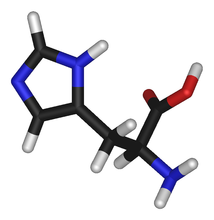 L--histidine-acid-3D-sticks